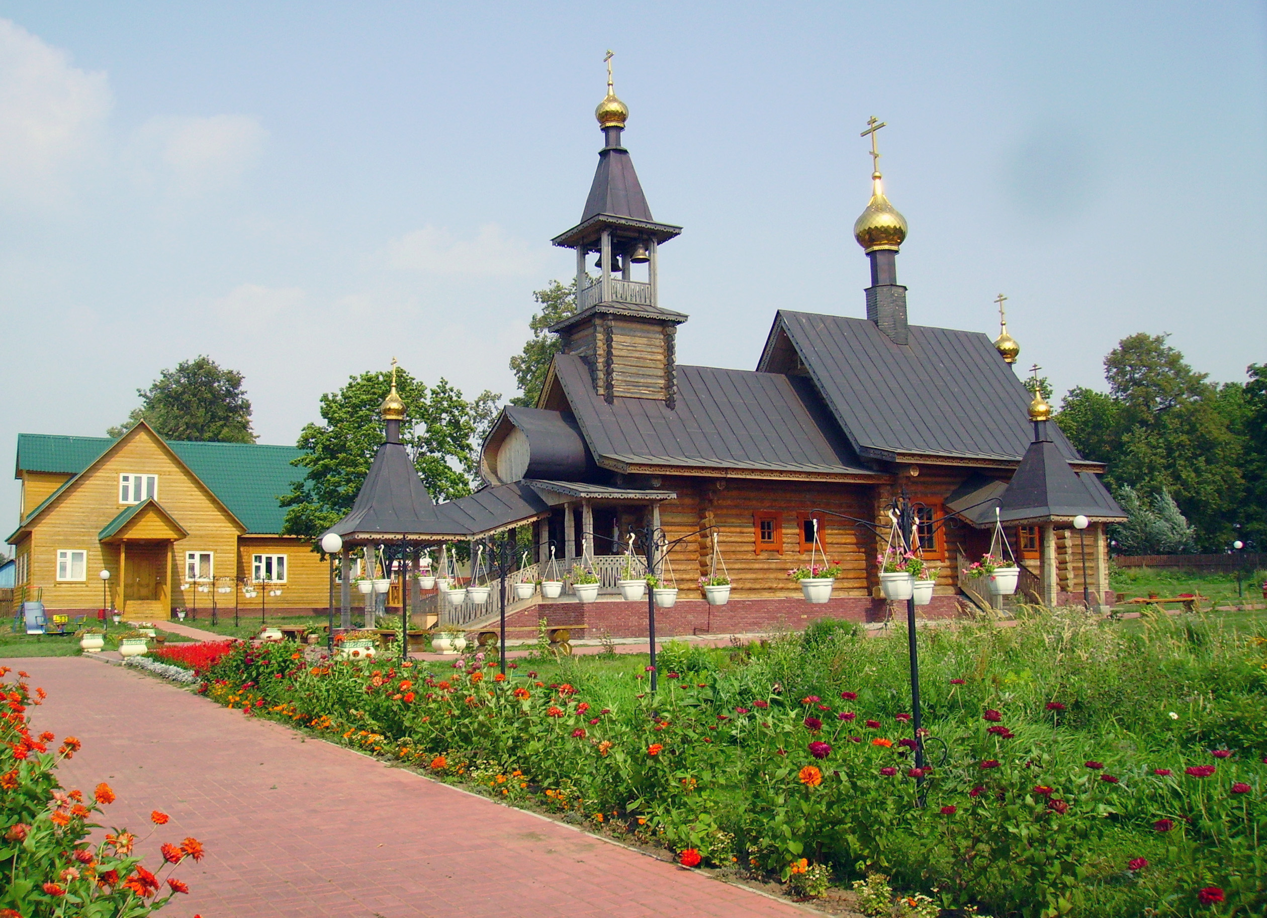 Sartakovo, Nizhny Novgorod Oblast', Russia. St Vladimir's Church.